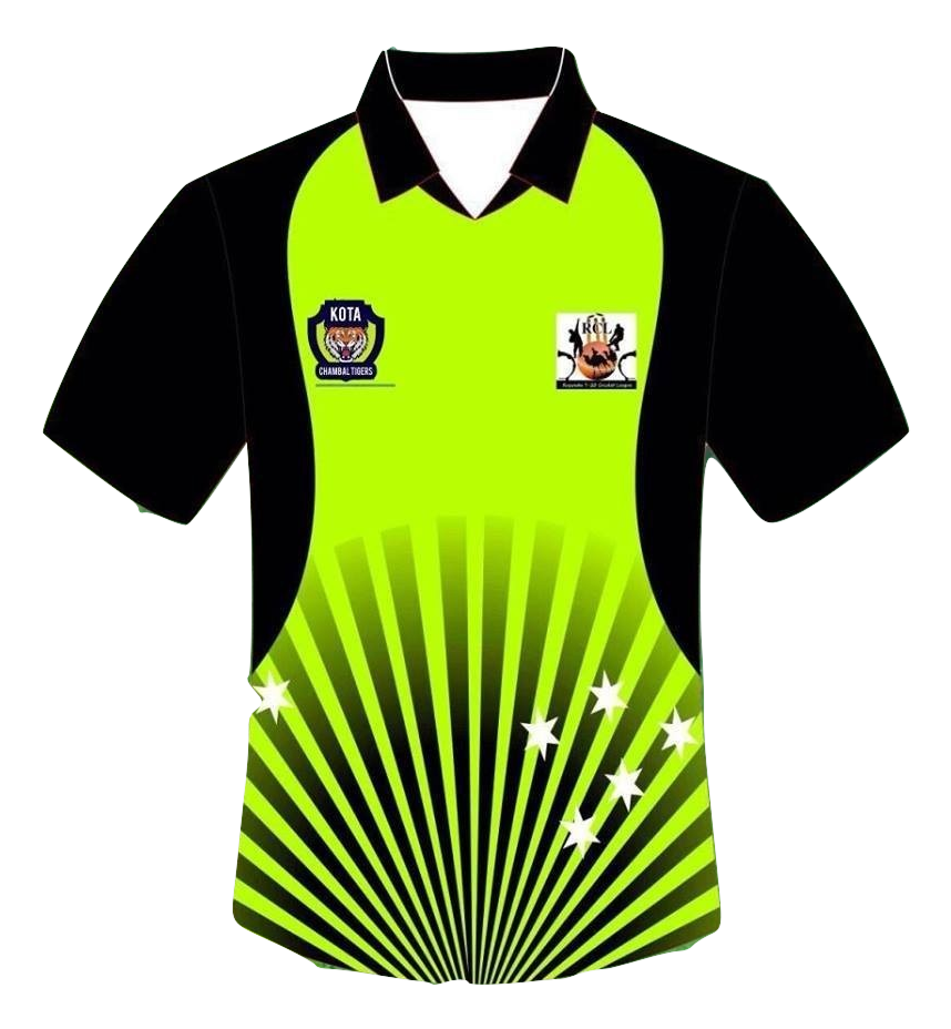 The official jersey for Kota Chambal Tigers for RCL 2017